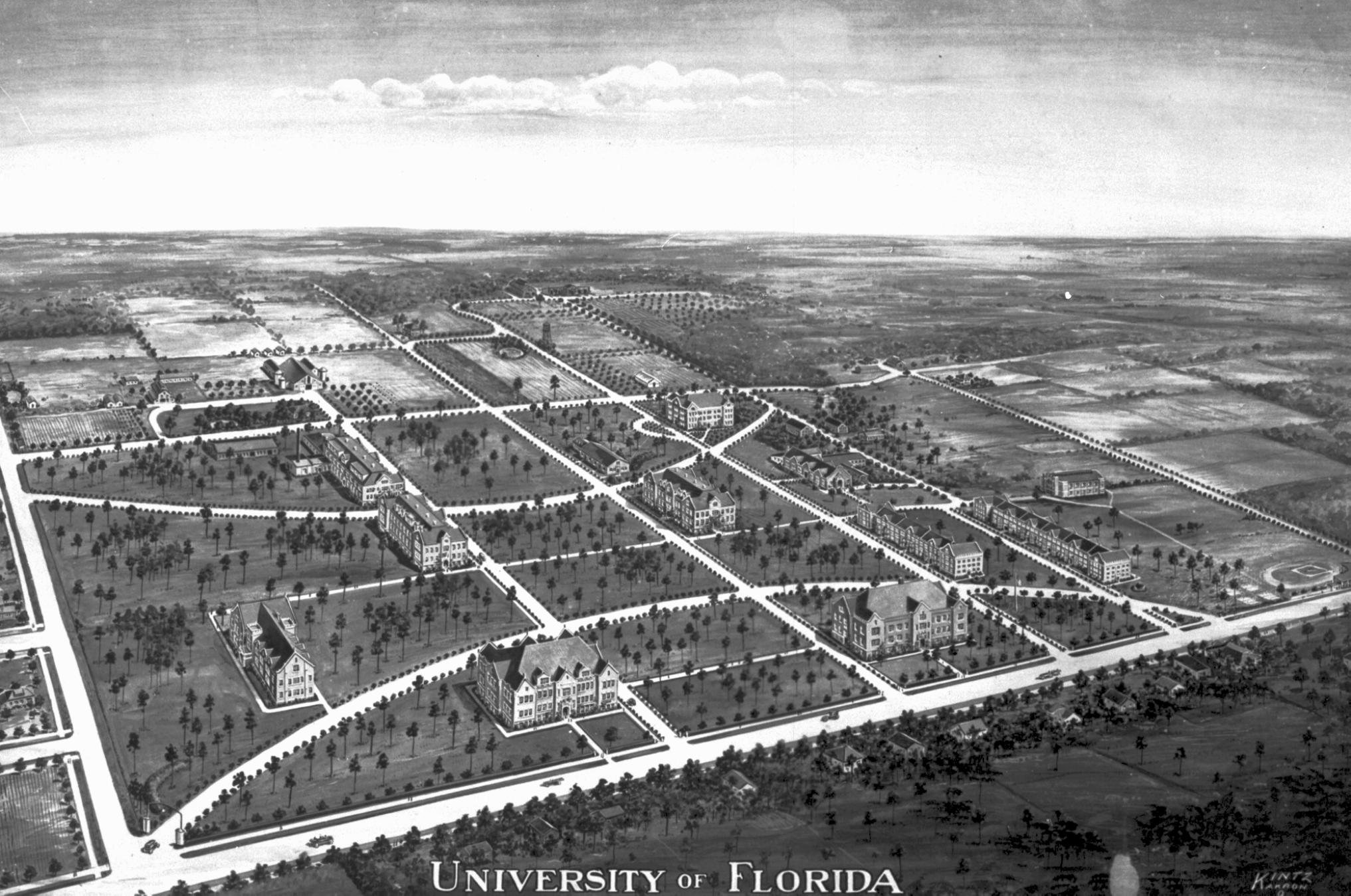 A historic layout of the University of Florida Campus